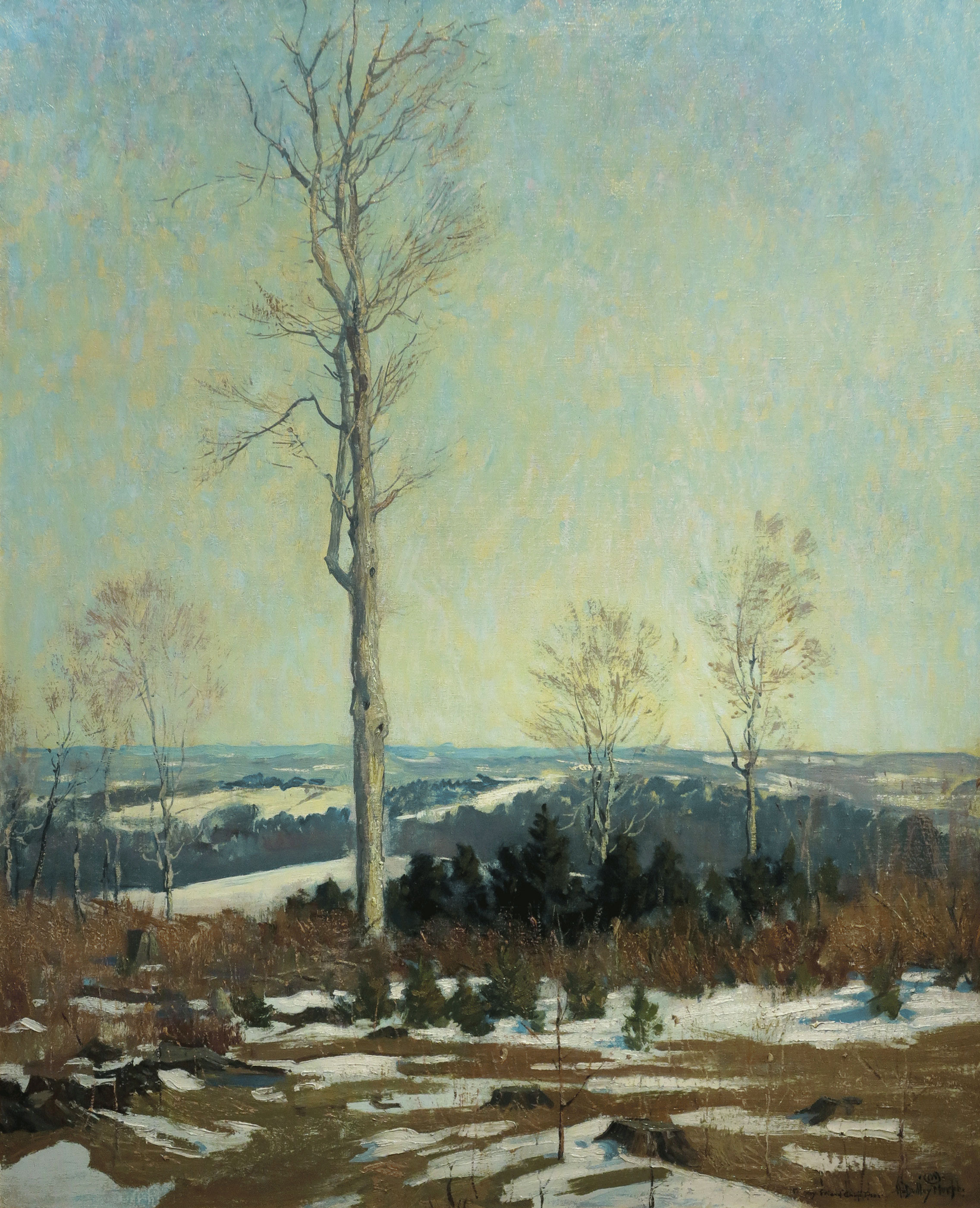 March Landscape near Mount Monadnock by Hermann Dudley Murphy, oil on canvas, 36 x 29¼ inches, 1922